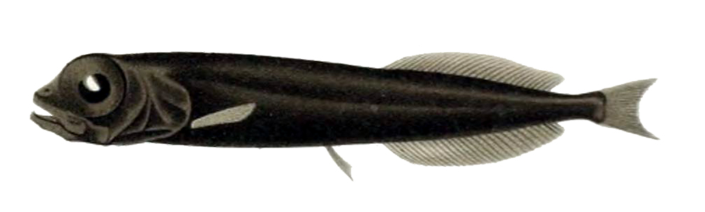 Xenodermichthys copei